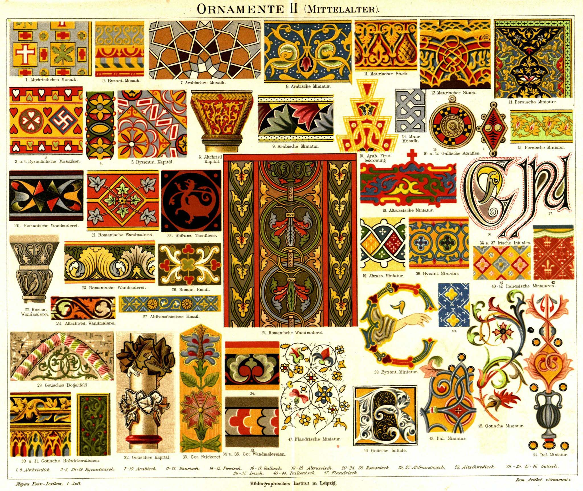 This is page 450b, as numbered of 1028, in Volume 12 of the German illustrated encyclopedia Meyers Konversationslexikon, 4th edition (1885-1890), fraktur font, title "Ornaments II (Middle Ages)" showing 47 types of ornaments (ornamental designs) c. 1888.